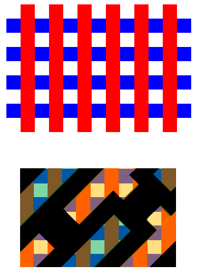 This grid location selection approach is an application of crossed multiple patterning layers (US Patent 9240329). Top: Intersecting lines from spacer patterning designate locations for pattern formation at points of intersection of blue and red lines. The blue lines represent the already patterned metal lines to be cut. Bottom: An additional round of spacer patterning may select those intersection locations which will be used for pattern formation. This particular example is based on the spacer-based method of US Patent 8697538. The orange tint indicates the core features, while the green tint indicates the gap features. Diagonal selection patterns are presented in US20150179513 (patent application).